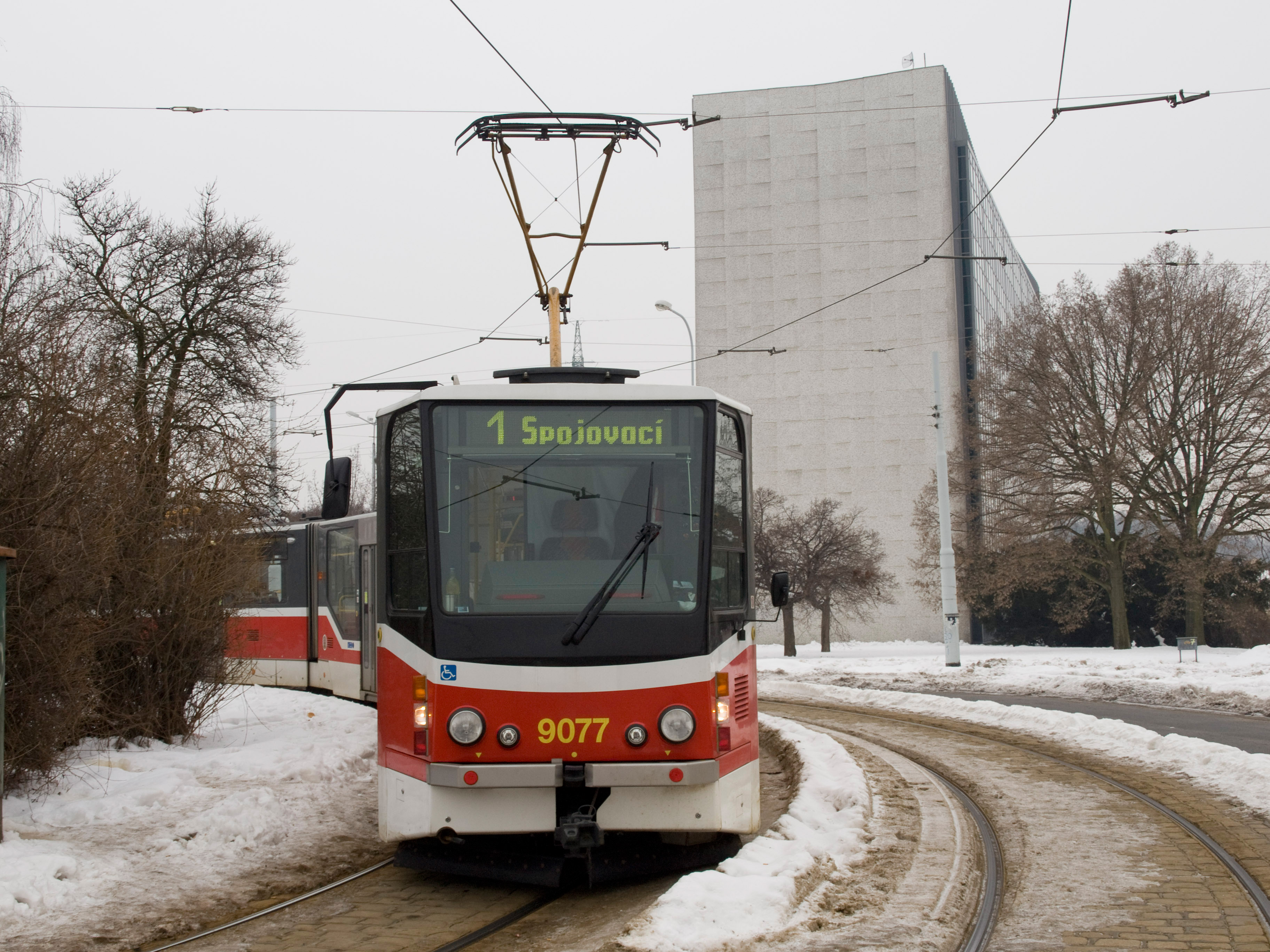 Tatra KT8D5.RN2P, tram loop Petřiny, Prague